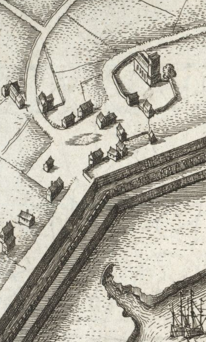 Image of Drypool village, walls of the Castle, and and river Hull, cropped from Wenceslas Hollar's map of Hull, c.1640